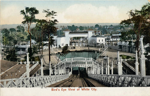 Bird's Eye View of White City, Cleveland Asserted to be in public domain - post card more than 100 years old.